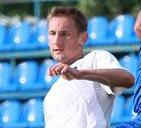 Uladzimir Karytska